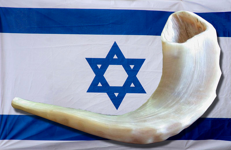 Jewish Shofar and Flag of Israel as a background (based on File:Flag-of-Israel-1-Zachi-Evenor.jpg by Zachi Evenor and File:Liten askenasisk sjofar 5380.jpg by Olve)